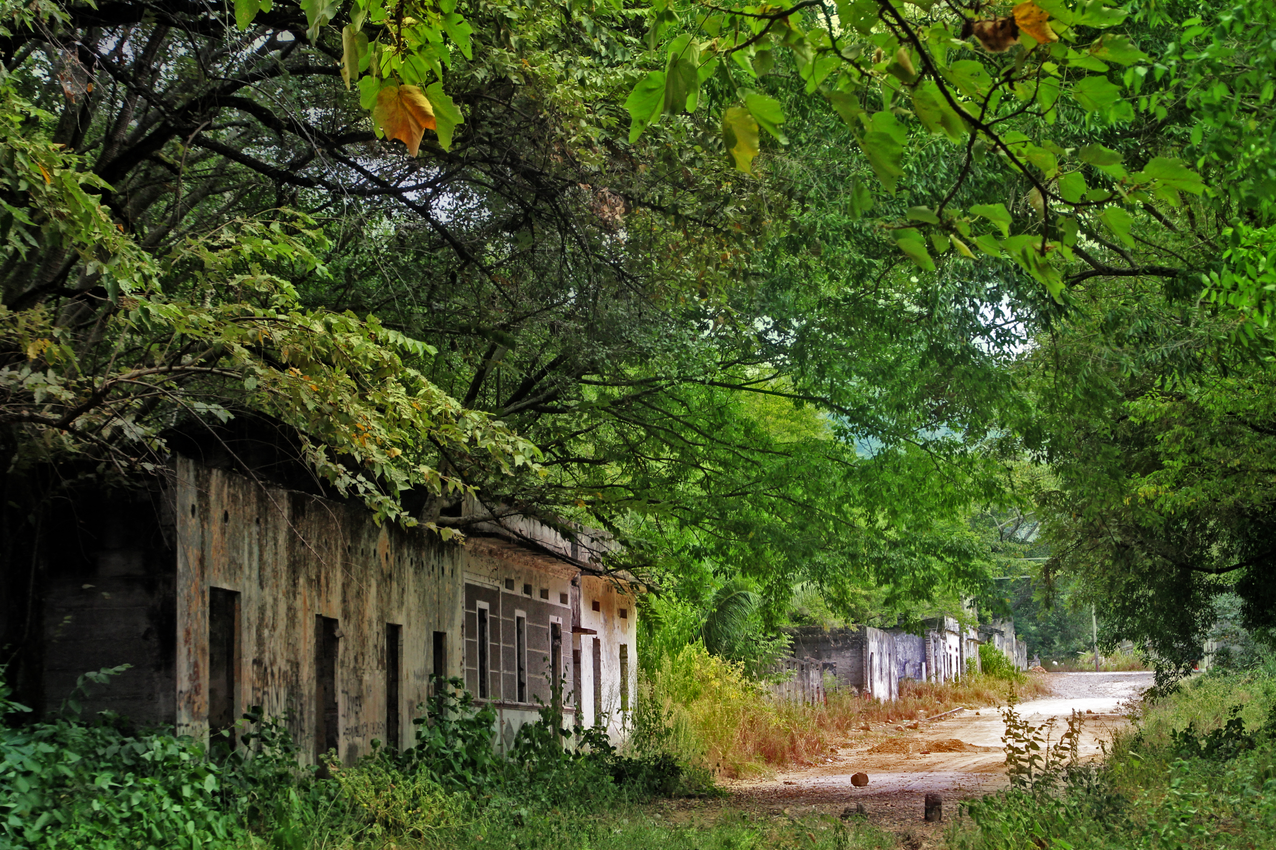 armero